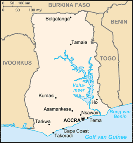 An Afrikaans map of Ghana.